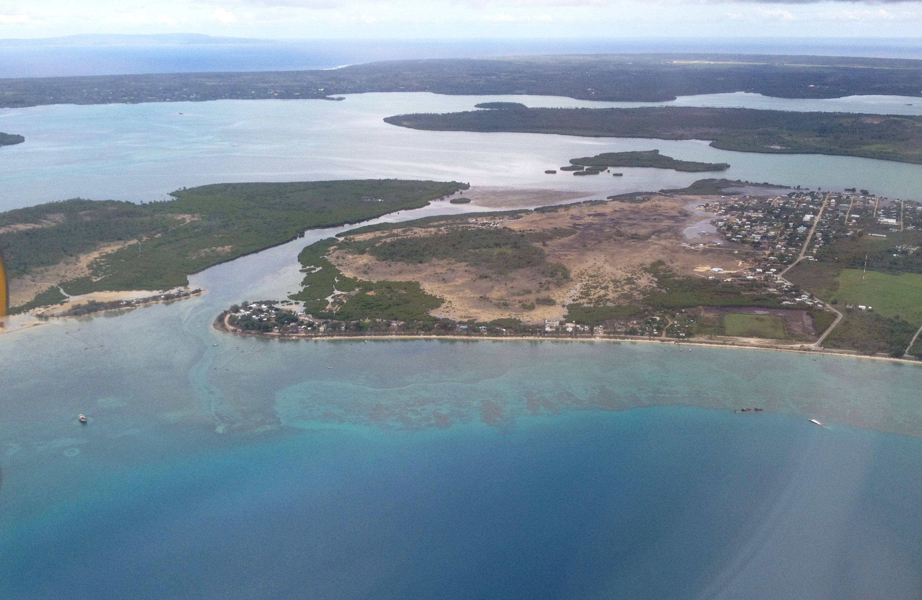 Approach to Fua'amotu Airport, Tongatapu, Tonga